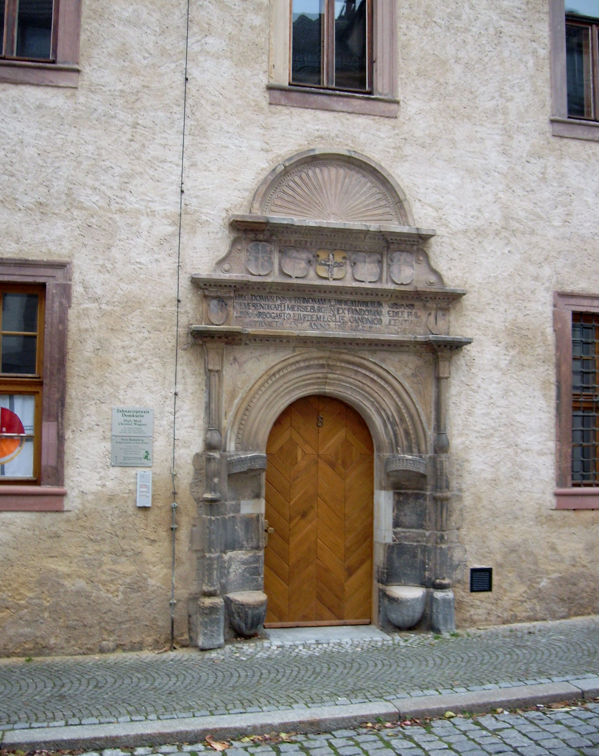 Portal of the house Domstrasse 8, Merseburg (district of Saalekreis, Saxony-Anhalt)